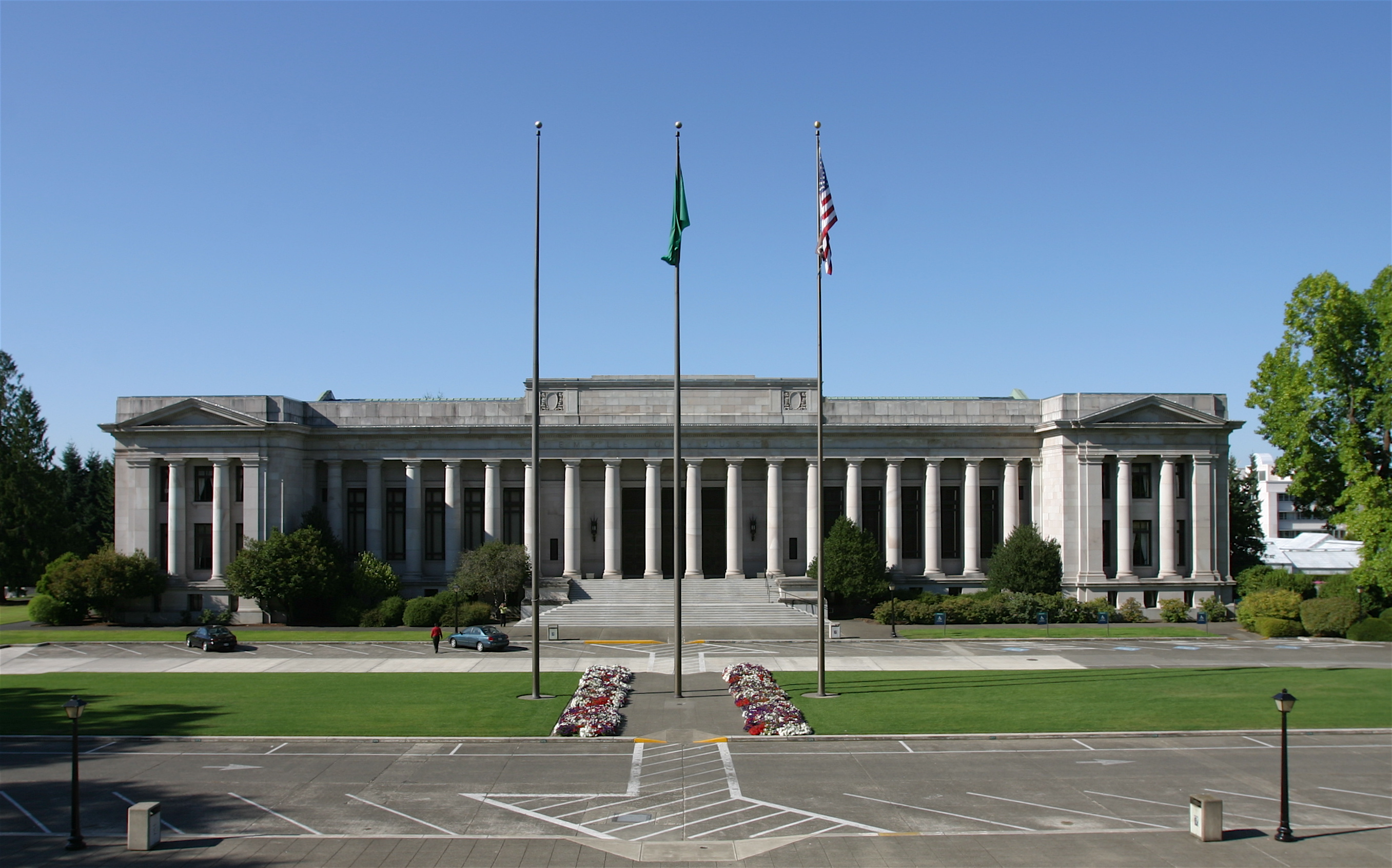 The Temple of Justice at the Washington State Capitol in Olympia, Washington.